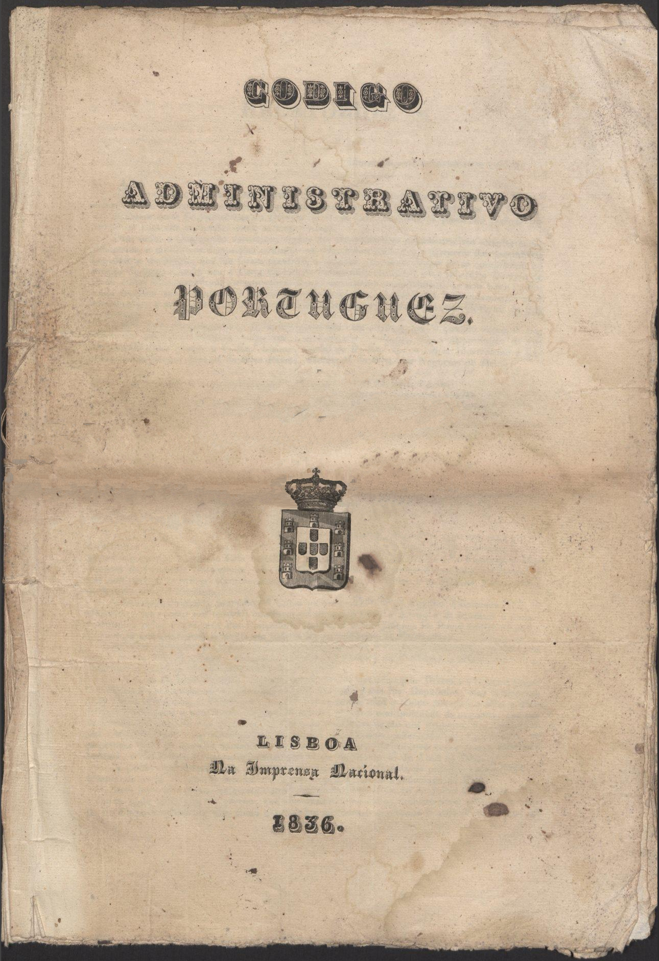 Cover of the Portuguese Administrative Code of 1836.